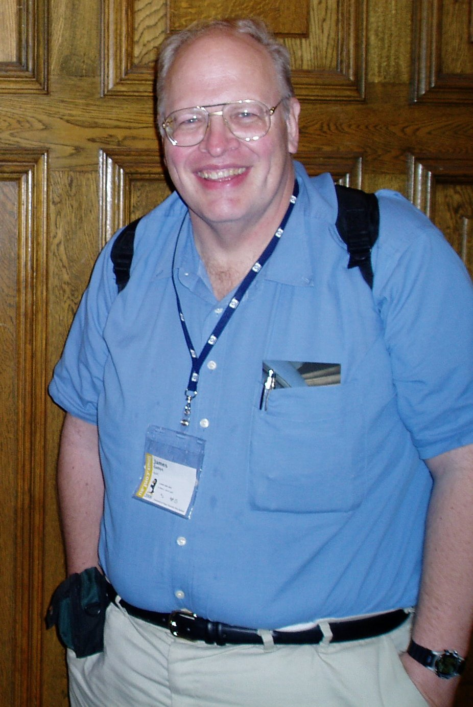 Computer Scientist Jim Gettys at conference in January 2006.